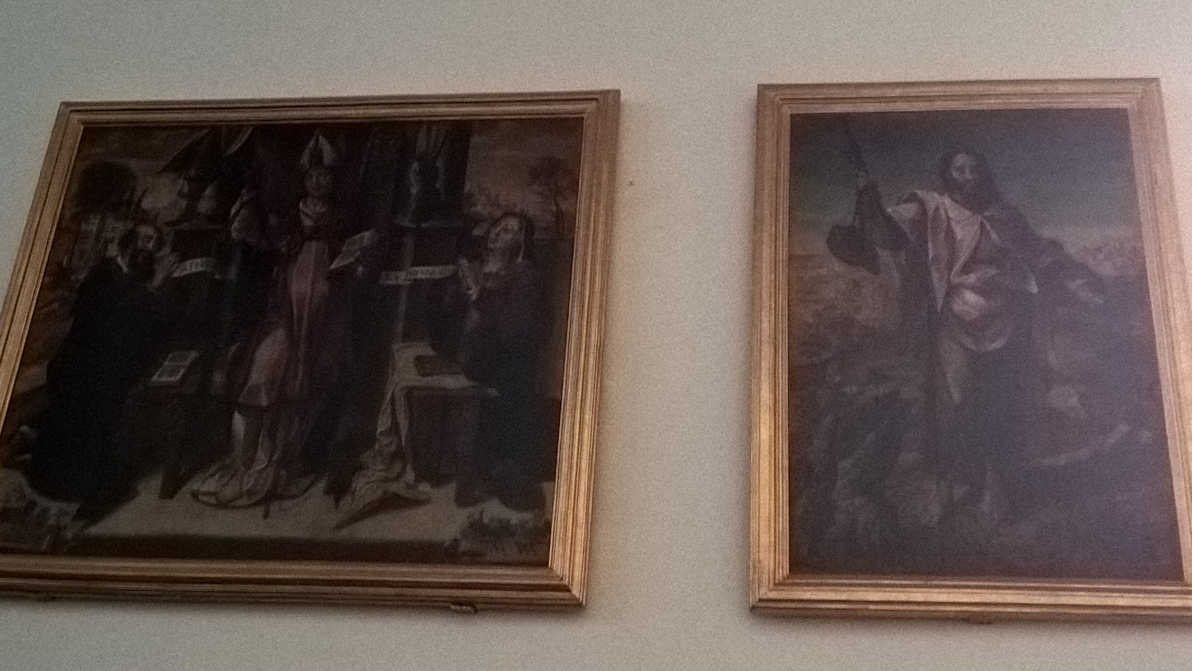 Pinturas S. Brás e os Doadores e São Tiago Maior´do Políptico do Arco da Calheta